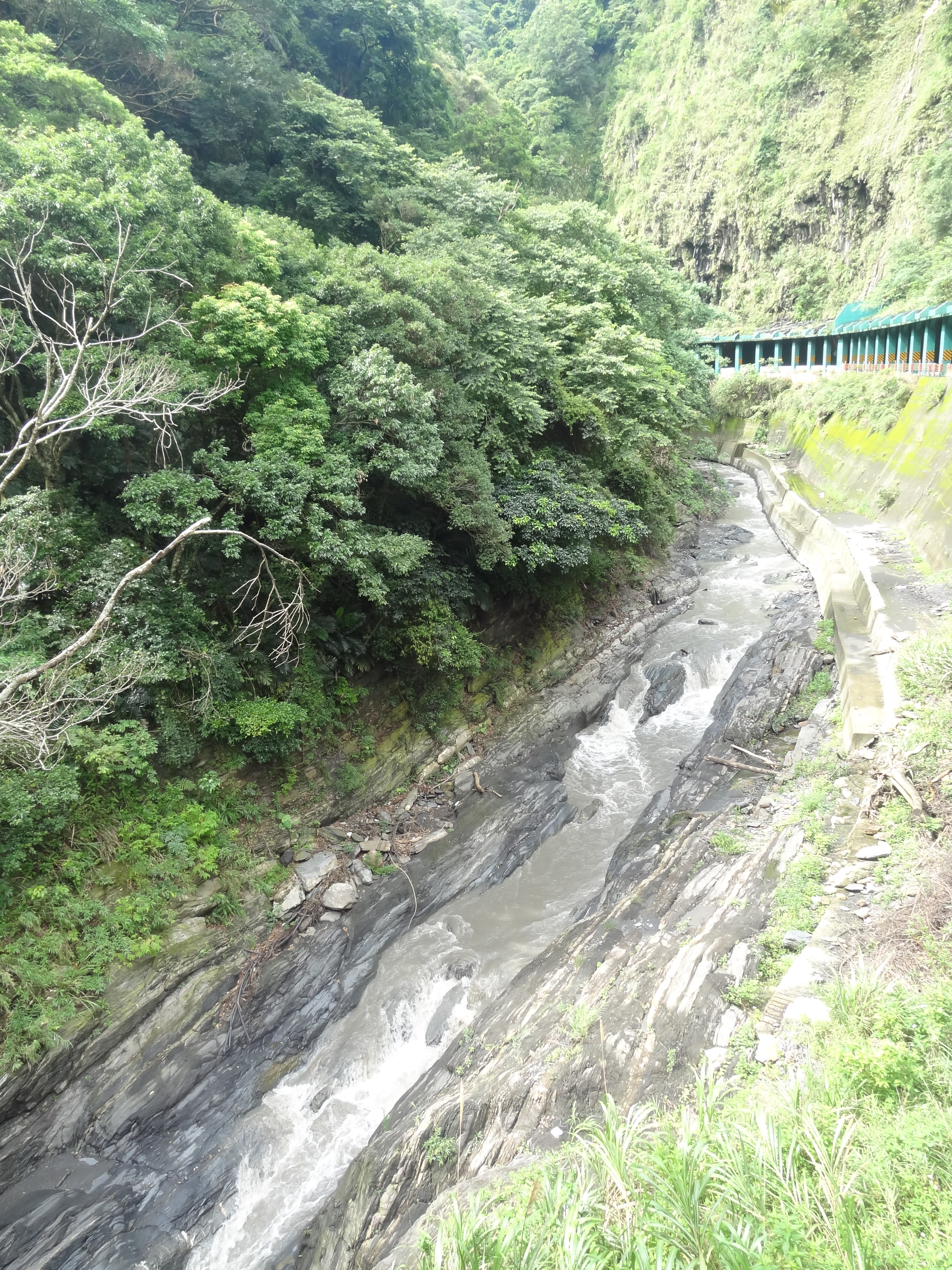 Looking down into the Mei River Gorge.